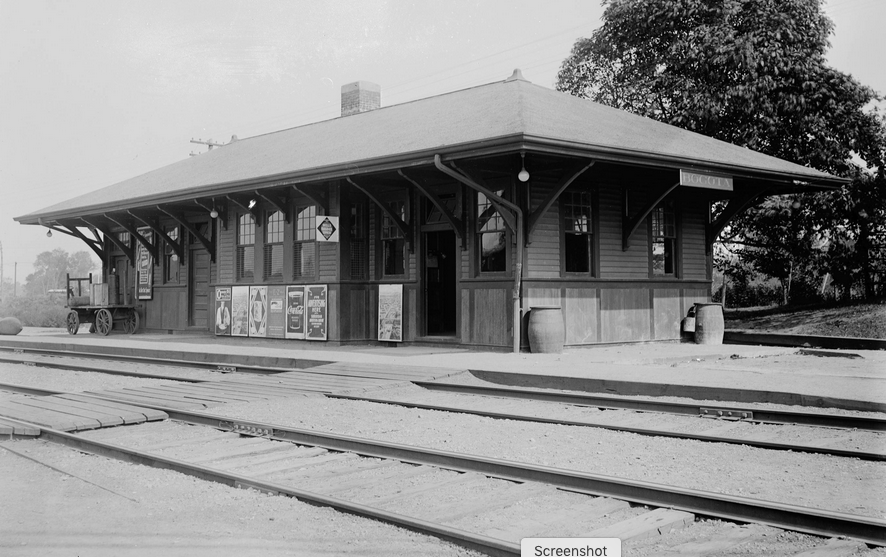 Station of New York Susquehanna & Western Railroad (circa 1908-1912) Bogota New Jersey